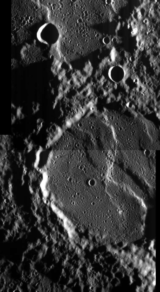 Part of Ruysch crater on Mercury. Part of Savage crater is visible at top. MESSENGER Narrow Angle Camera mosaic. Top image was scaled to match bottom one. North is at top. Width is about 70 km. Statistics for bottom image are: Emission Angle: 12.2 Incidence Angle: 86.3 Latitude: -11.1 Longitude: 93.9 Phase Angle: 74.1